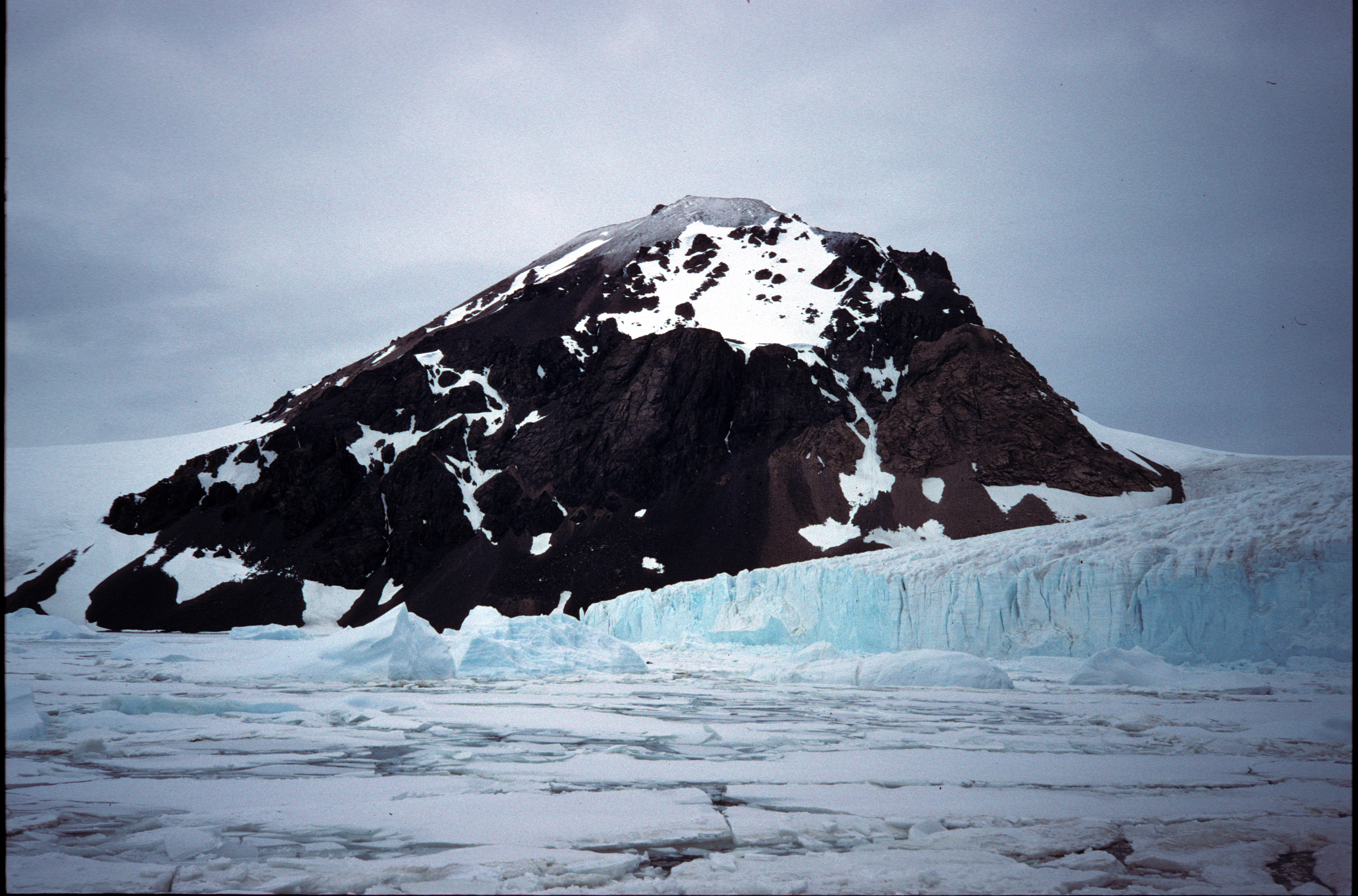 Horseshoe Island, Spincloud Heights thrust